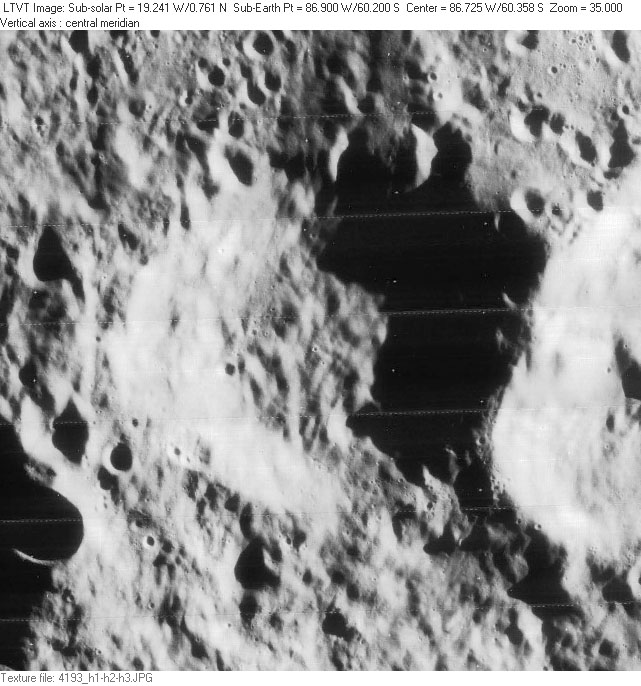 Crater Pilâtre. Detail from Lunar Orbiter IV-193H. High resolution scans from the USGS Lunar Orbiter Digitization Project remapped to a north-up aerial view by LTVT.